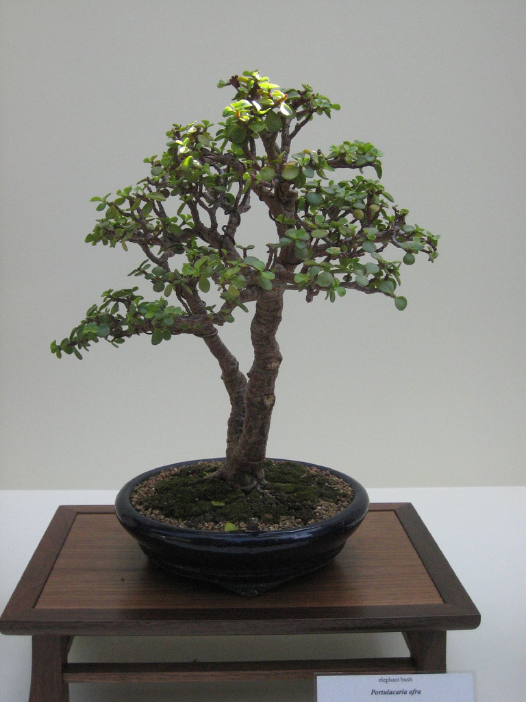 Portulacaria afra Soju Style (double trunk) Approximate Age: 10 Years in Training: 5 Exhibited by M. Limburg Yama Ki Bonsai Society